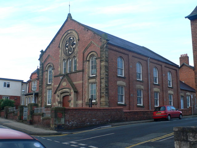 Capel Bathafarn, Ruthin Bathafarn Chapel, on the junction of Market Street and Prior Street. The Reverend Edward Jones of Bathafarn Farm (1778 - 1837) in Llanrhudd parish near Ruthin, has been regarded as the father of Welsh Methodism. He was ordained in 1802 and in the same year the first Nonconformist chapel was built in Ruthin under his leadership. His zeal for the Methodist cause and its promotion caused him later to be a trustee to many other congregations and he embarked on a number of preaching tours to clear their building costs. Chapels as far as Carmarthenshire bear the name Bathafarn as a tribute. The present chapel, a memorial chapel to Edward Jones, was built in 1869.